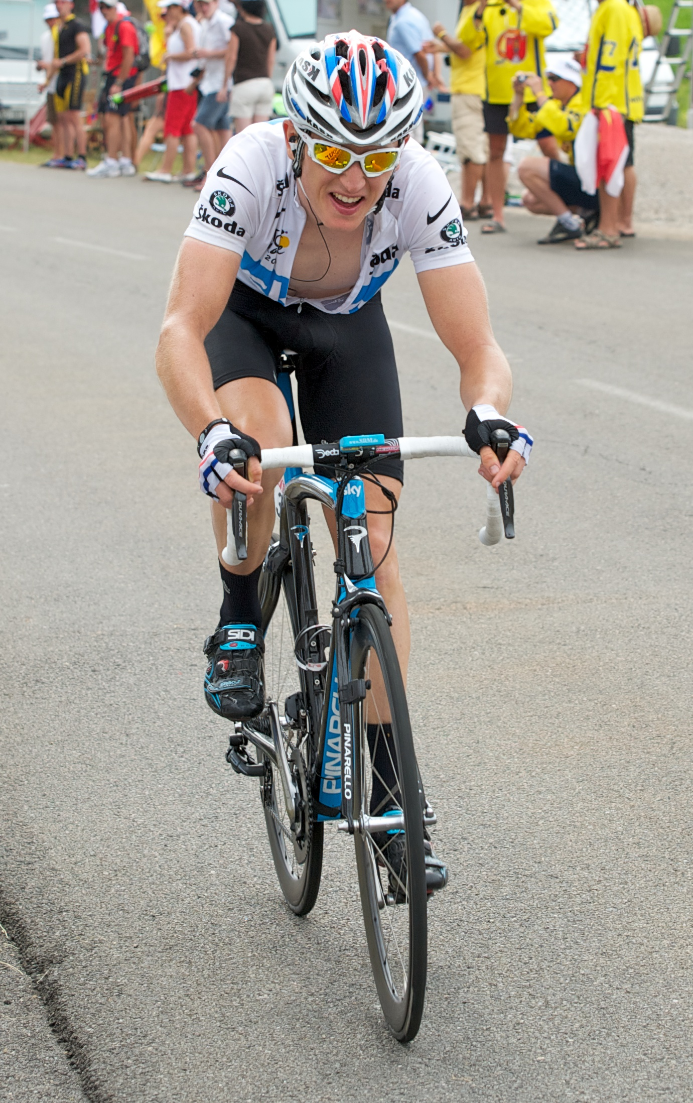 Thomas had a great run in the white jersey, but gave it up to Andy Schleck after this stage.